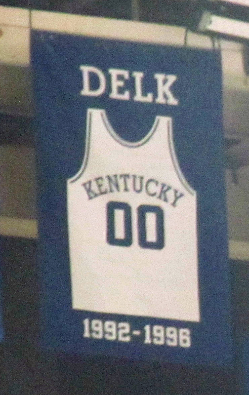 A jersey honoring Tony Delk hangs in Rupp Arena in Lexington, Kentucky